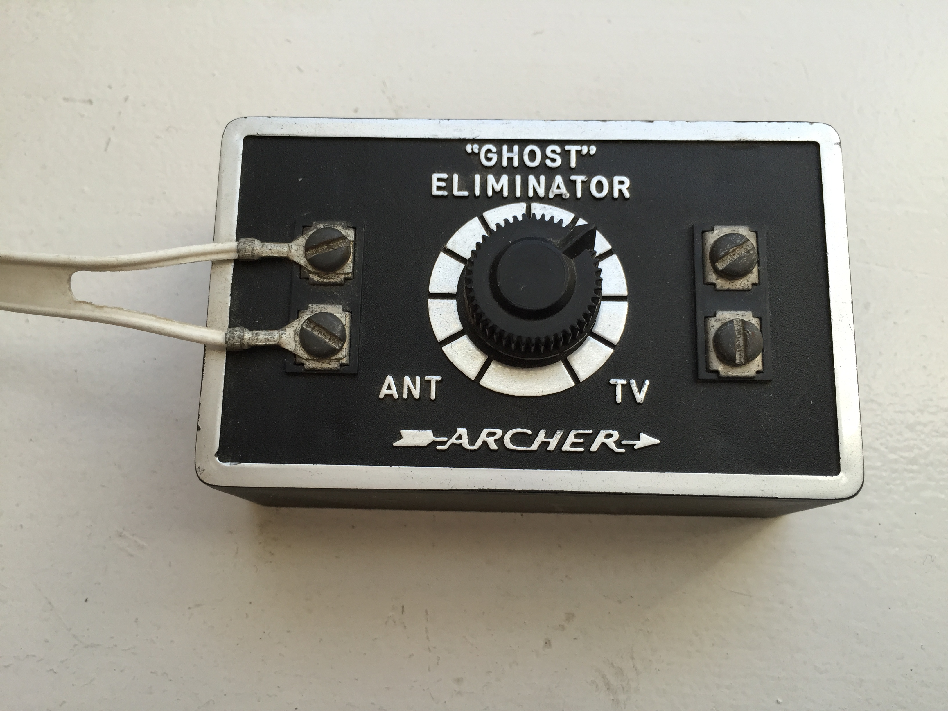 A "ghost eliminator" designed to reduce ghosting in over-the-air consumer television reception, made by Radio Shack under its Archer label. Devices like this were sold in the 1960s and 70s. The unit measures 95 x 68 x 43 mm and contains a resistive attenuator with a variable potentiometer between the antenna and receiver File:Pi type unbalanced attenuator circuit.jpg. According to a review in Popular Science, April 1972, pp. 75-76, the unit sold for $3.99 and was of limited utility.